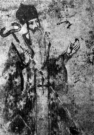 Mathew, Patriarch of Alexandria